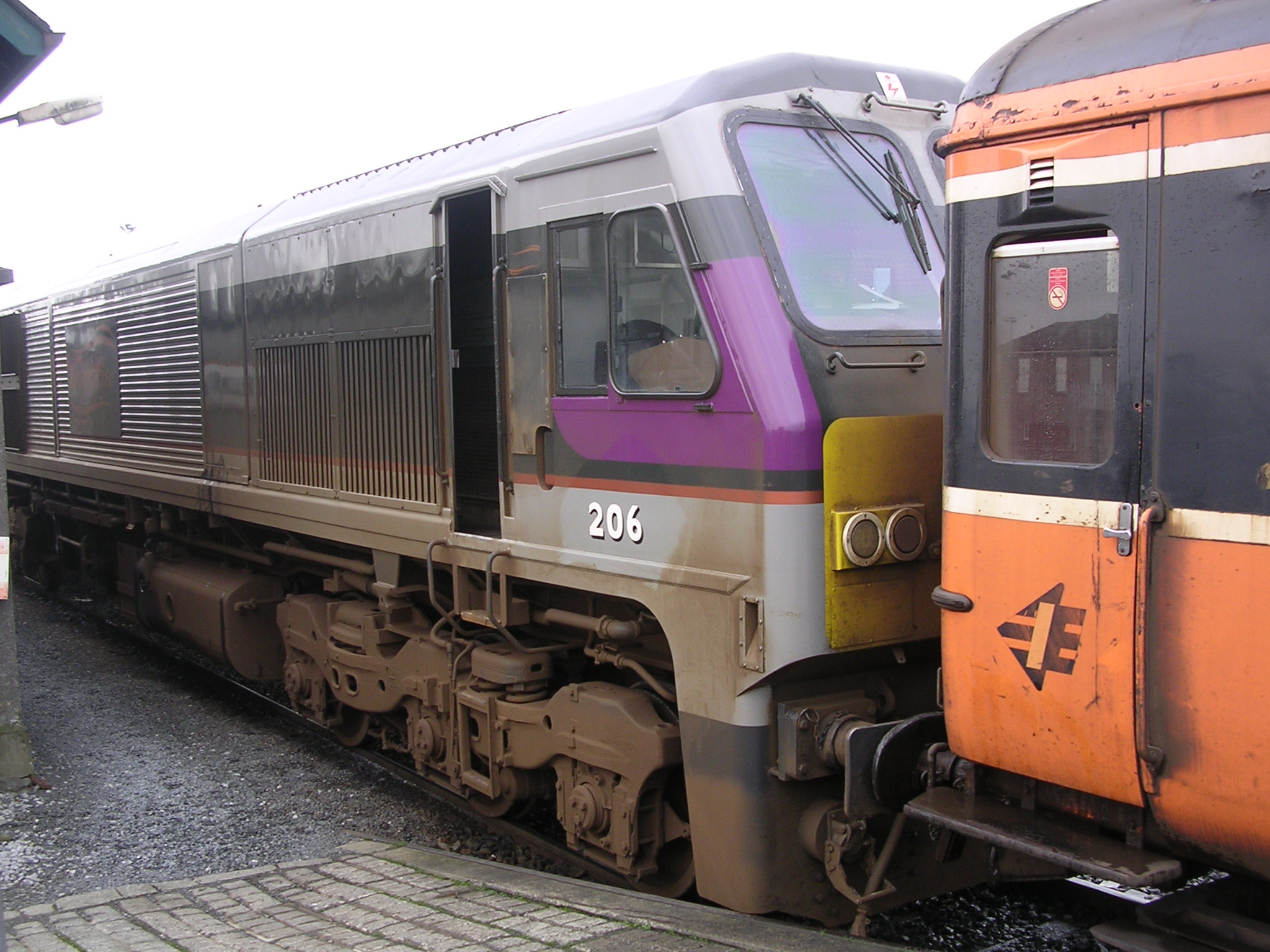 201 Enterprise, Photo Taken Jan 06